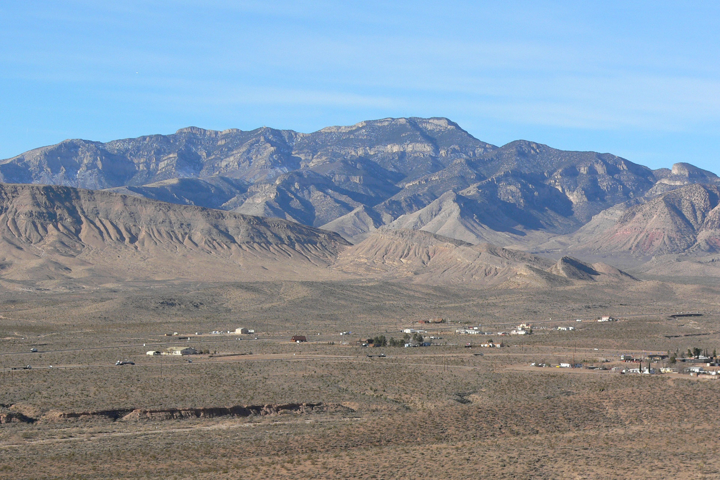 Mount Potosi seen from the east